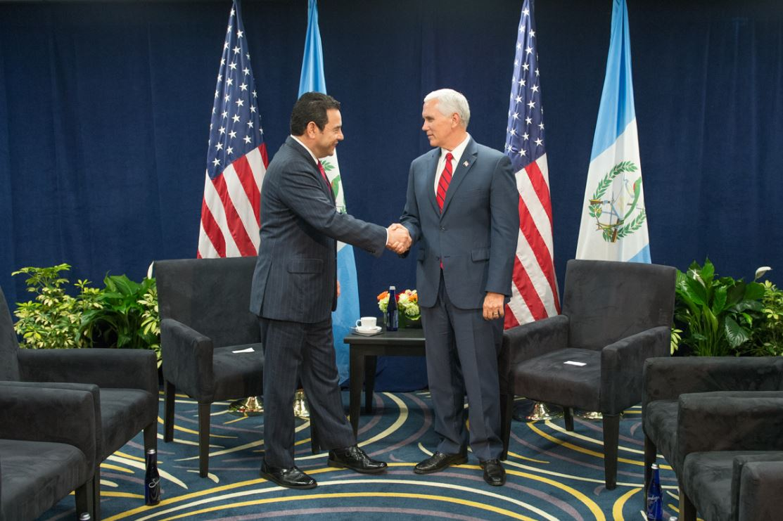 The Vice President met with Guatemalan President Jimmy Morales in Miami, Florida at the inaugural Conference on Prosperity and Security in Central America. On behalf of President Trump, the Vice President recognized Guatemala for its strong commitment to the Alliance for Prosperity, and steadfast support in the fight against illegal drug trafficking. The Vice President emphasized the importance of redoubling the fight against corruption and impunity, including support for the Attorney General and UN Commission Against Impunity and Corruption, and acknowledged President Morales' personal dedication to this cause. The leaders discussed the on-going crisis in Venezuela, and expressed their concern for the Venezuelan people who suffer most. The Vice President, together with President Morales, reiterated a shared commitment to building the already strong bilateral relationship, and advancing shared goals of advancing security and prosperity.